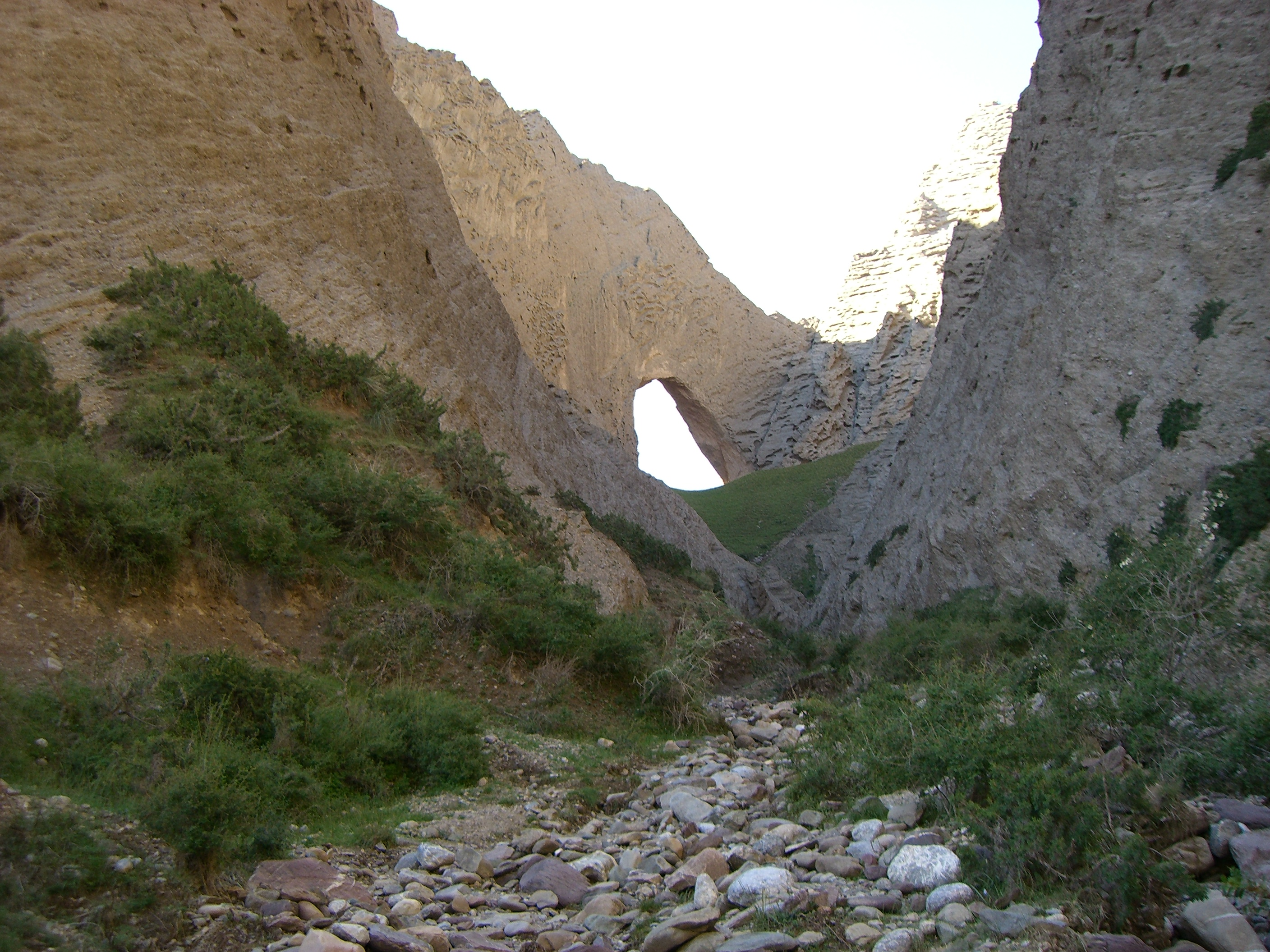 I took this picture in early July 2006 at Shipton's arch.